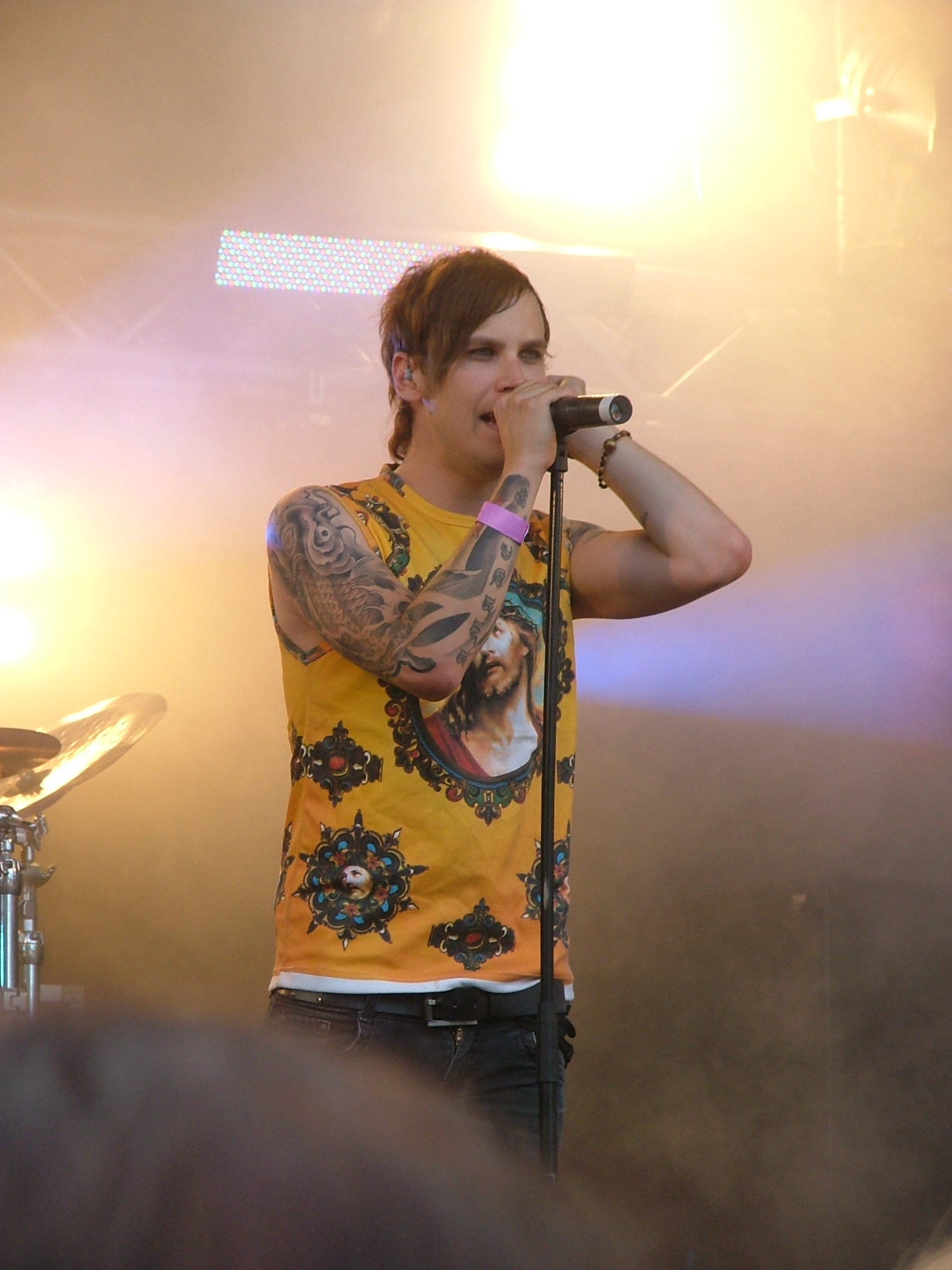 Finnish rock band Uniklubi in Kuopio at Rockcock-musicfestival